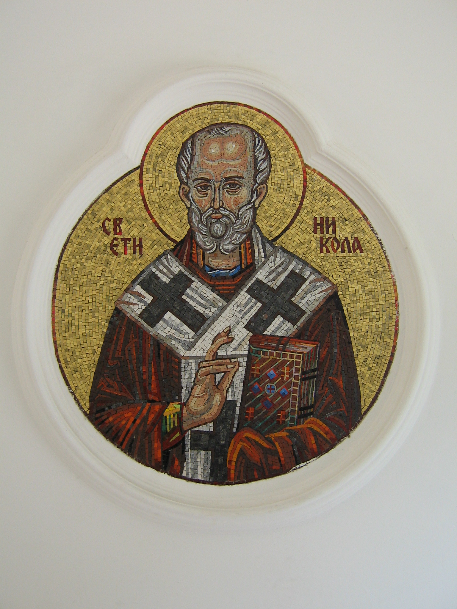 Saint Nicolas, mosaic, Grgeteg monastery, Fruška Gora, Serbia, photo taken by me in August 2006. The mosaic is on the wall, the size is around 0.5m.